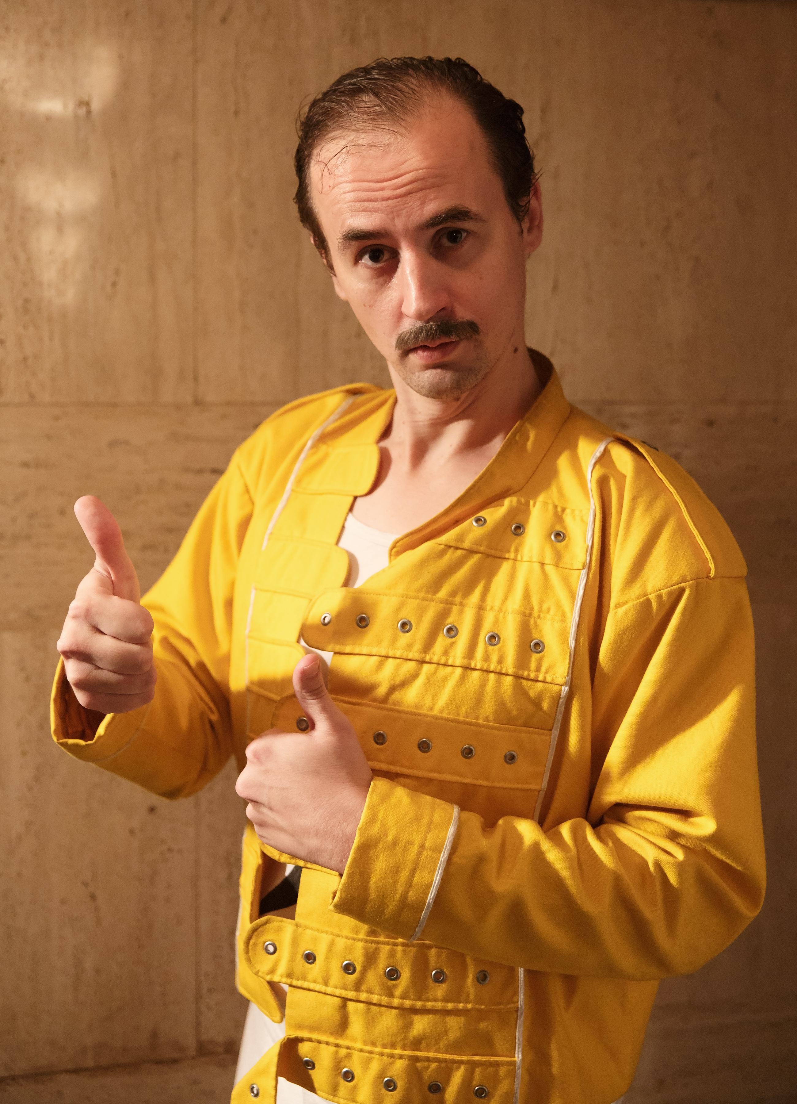 Austrofred, opening evening of Vienna International Film Festival 2015 at Gartenbaukino in Vienna, Austria.